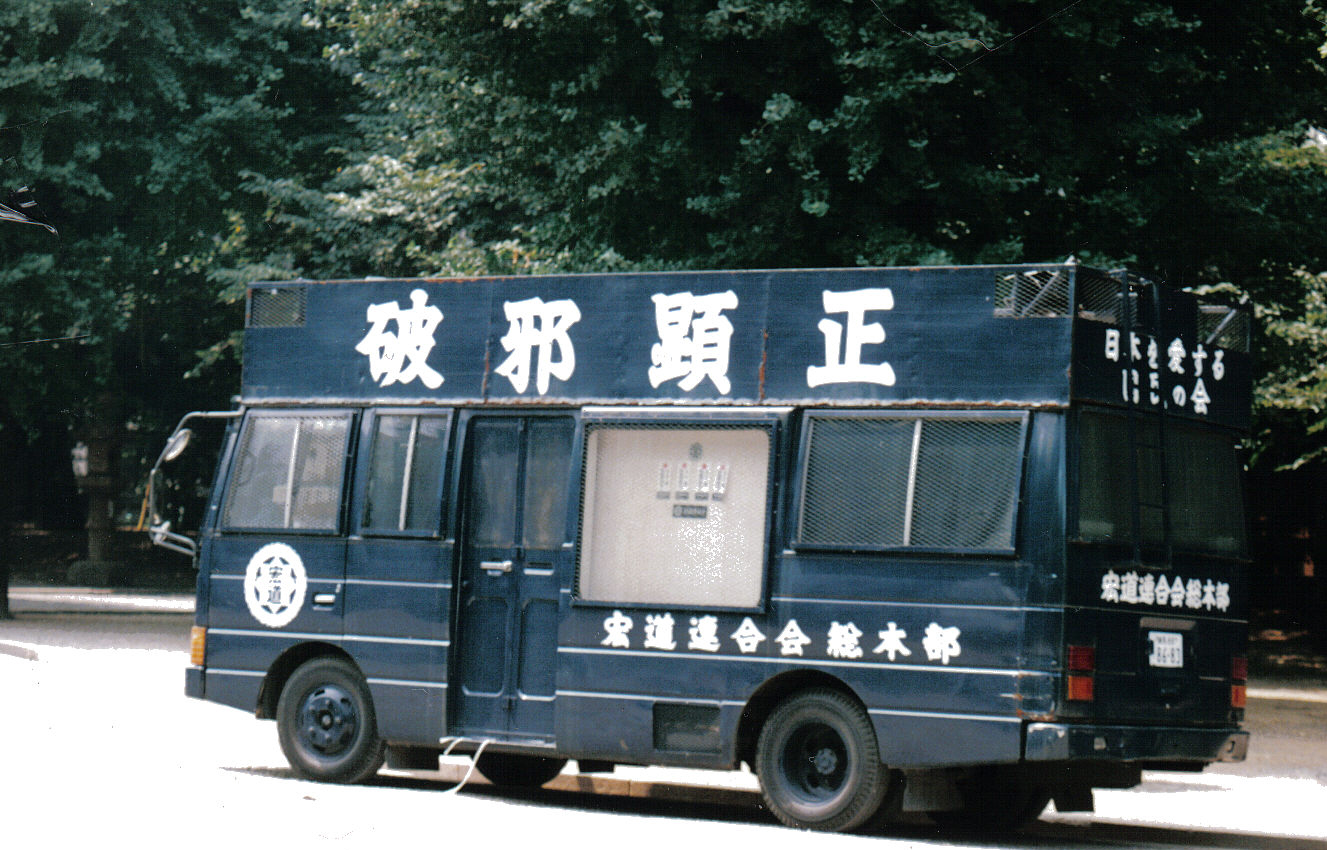 Yasukuni Jinsha Right Winger's Sound Truck Parked in Grounds